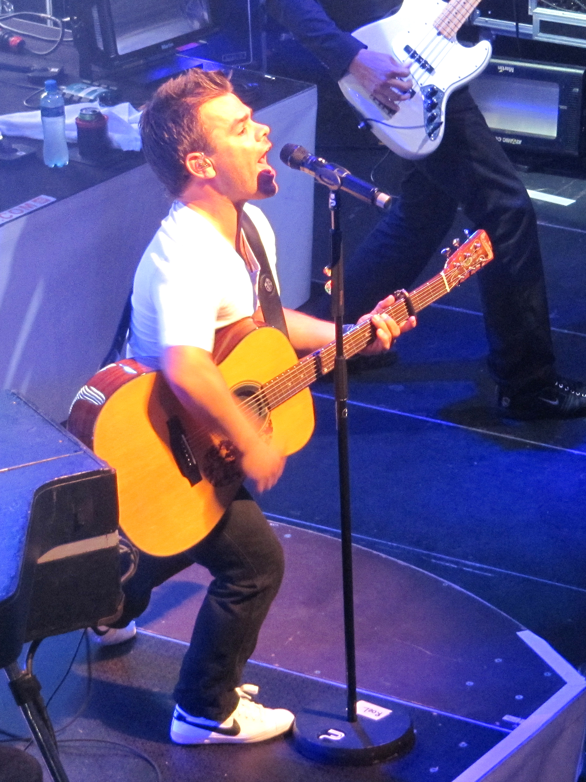 Roel van Velzen on the opening night of the 'Take Me In Tour' in Paradiso (Amsterdam), playing the guitar and singing.